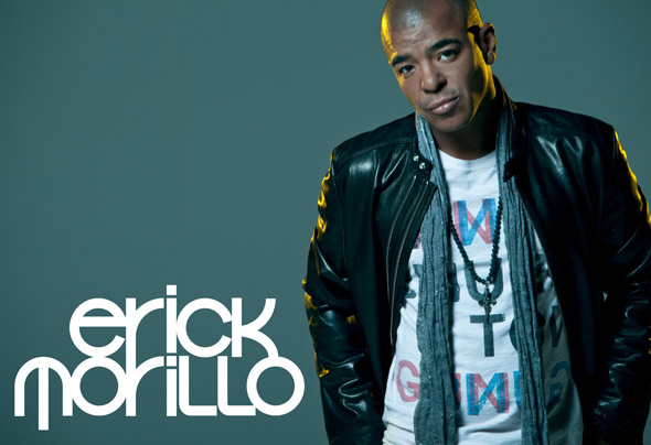 Erick Morillo